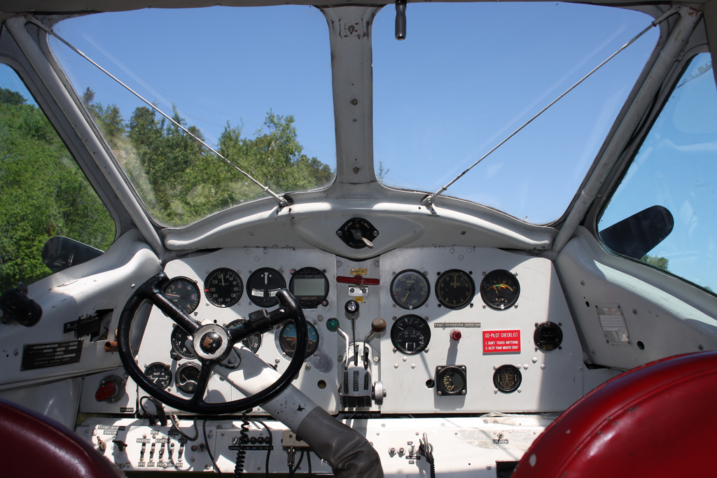 Norseman Panel